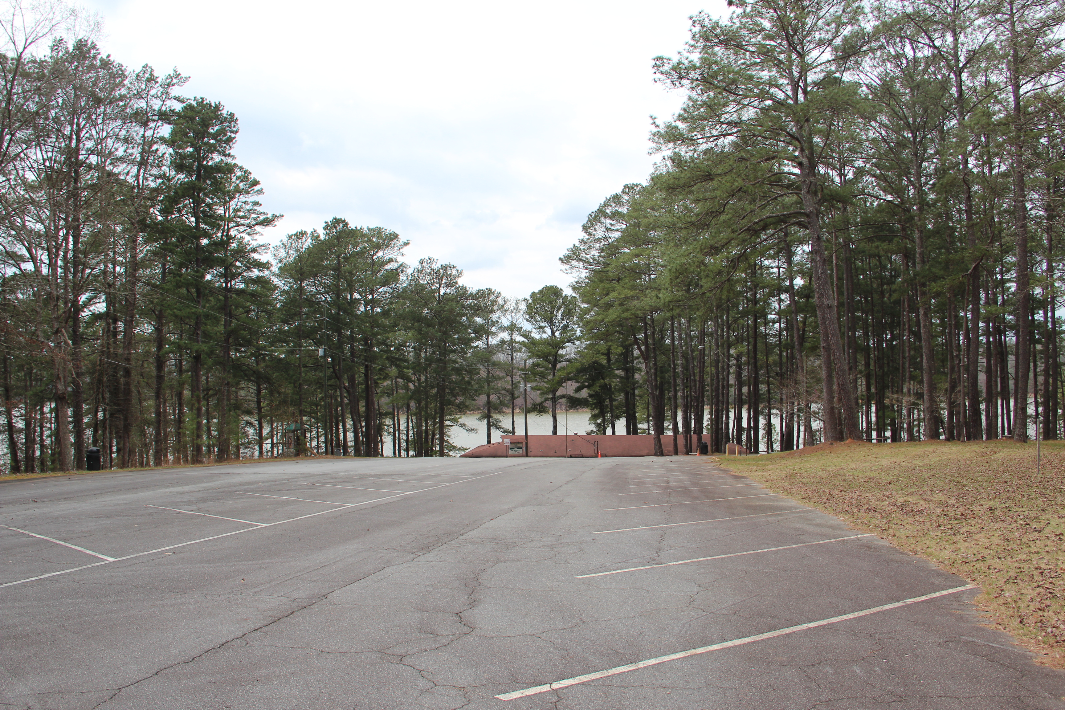 Bartow Carver Park, formerly known as George Washington Carver State Park